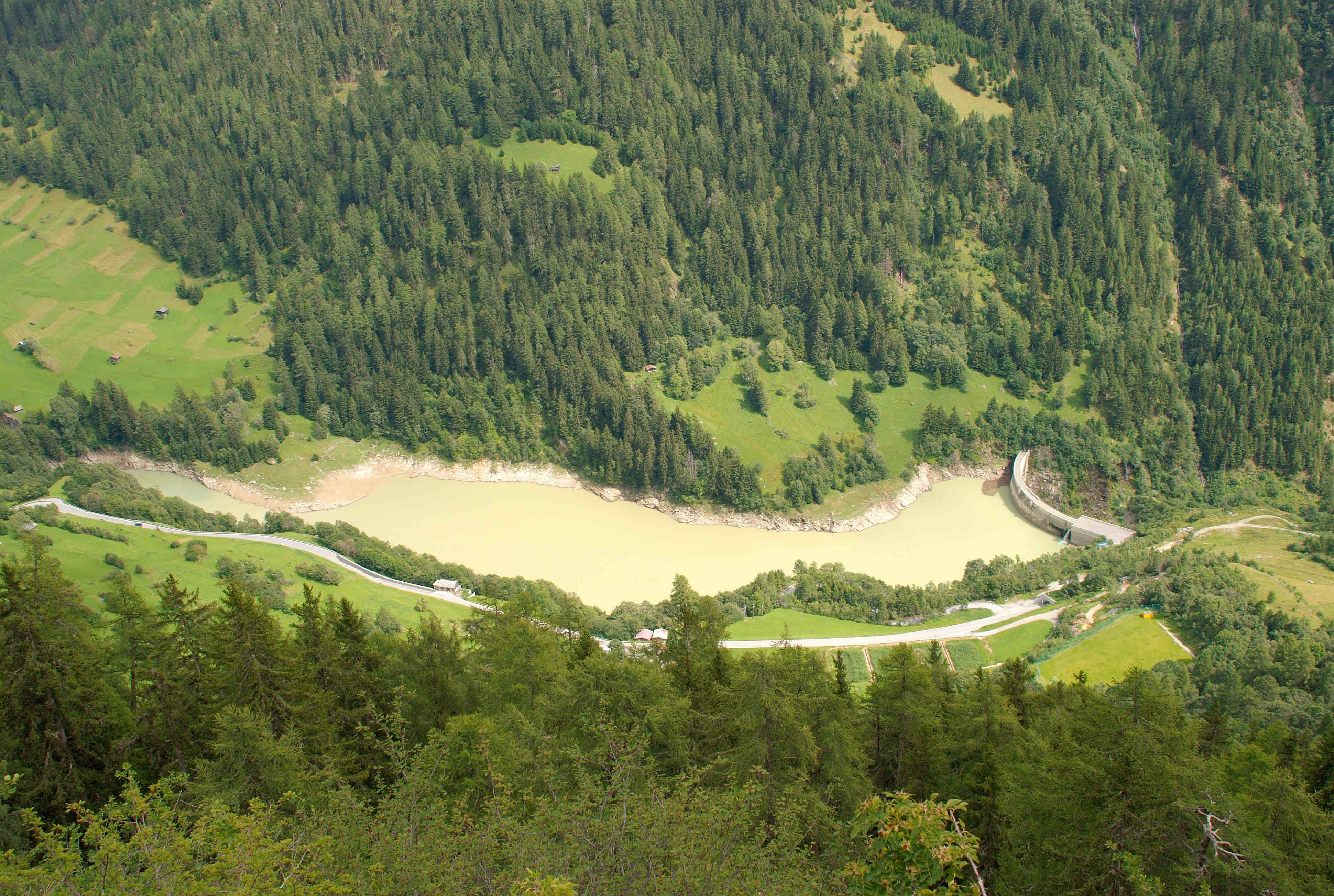 Lonzastausee (or Stausee Ferden) at Lötschental, Switzerland